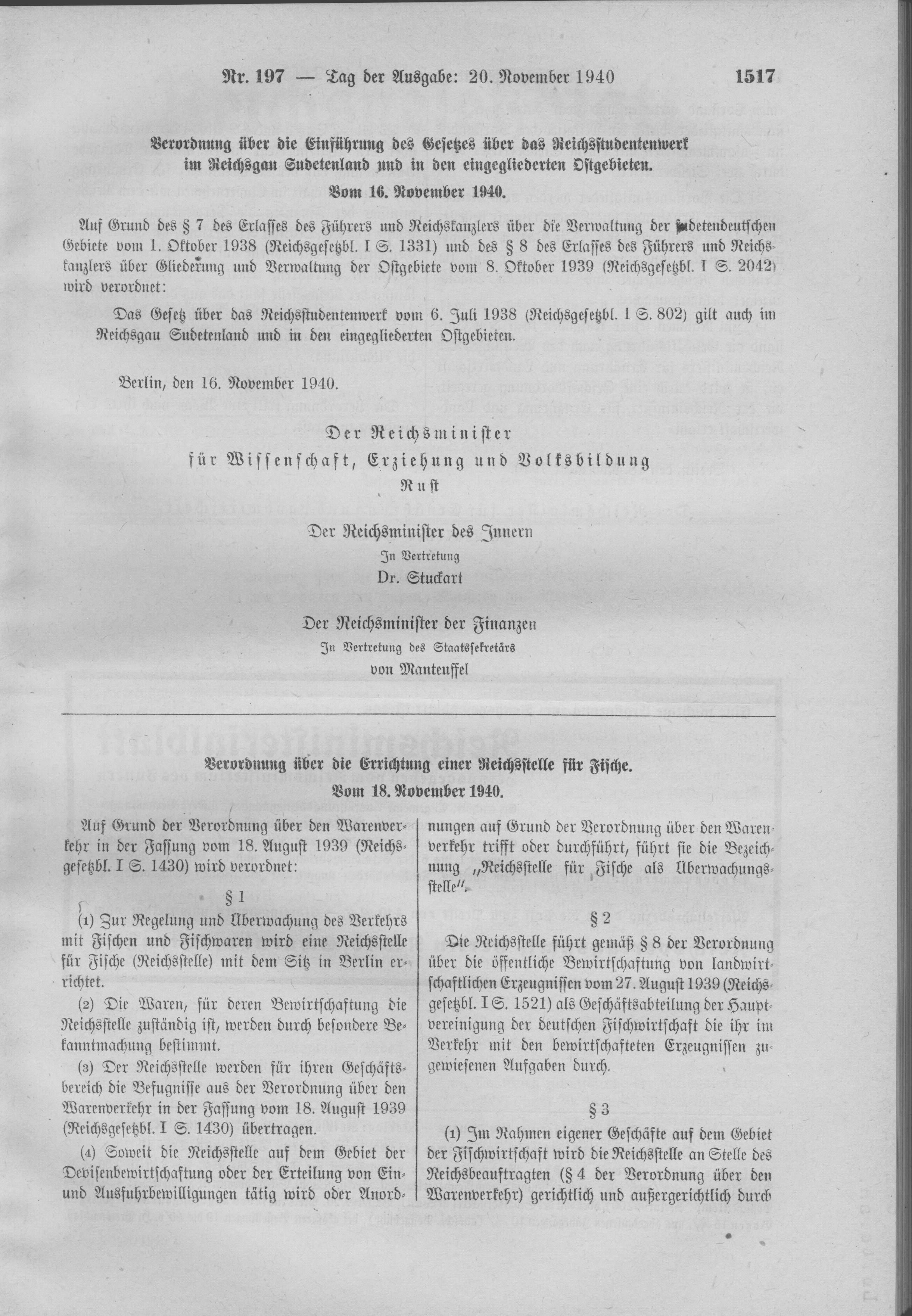 Scan from the Imperial Law Gazette of Germany, 1940, part 1